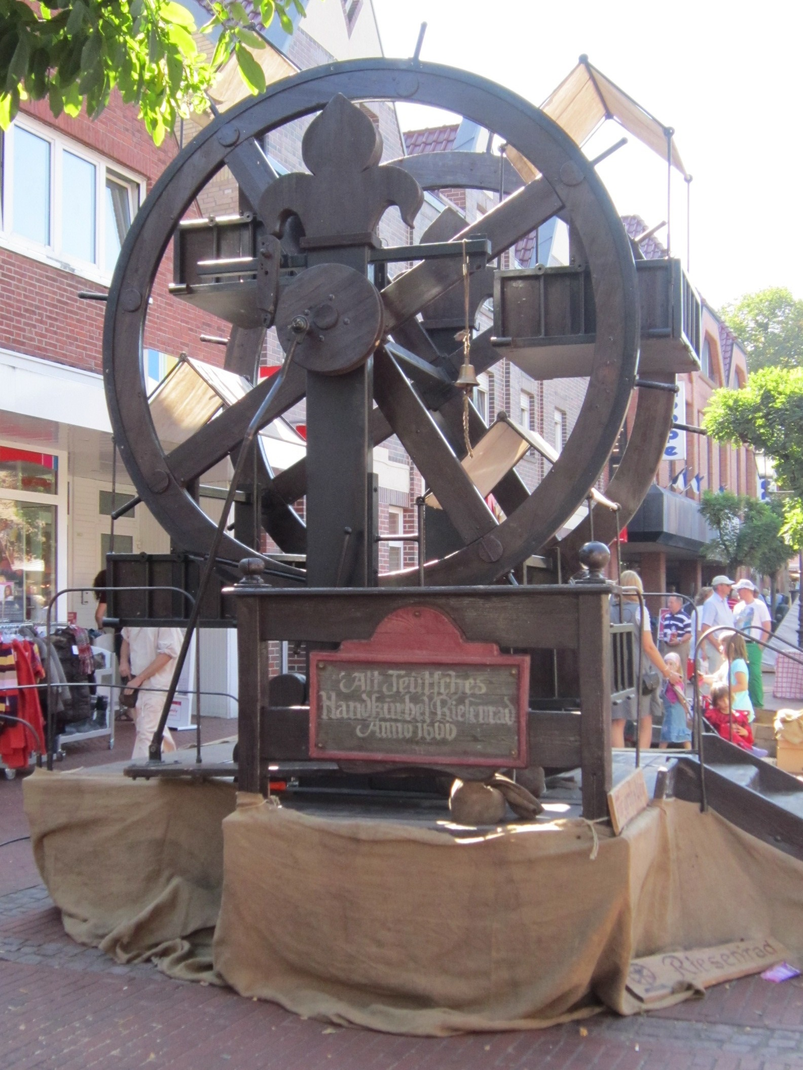 Historical "Korn- und Hansemarkt" Haselünne